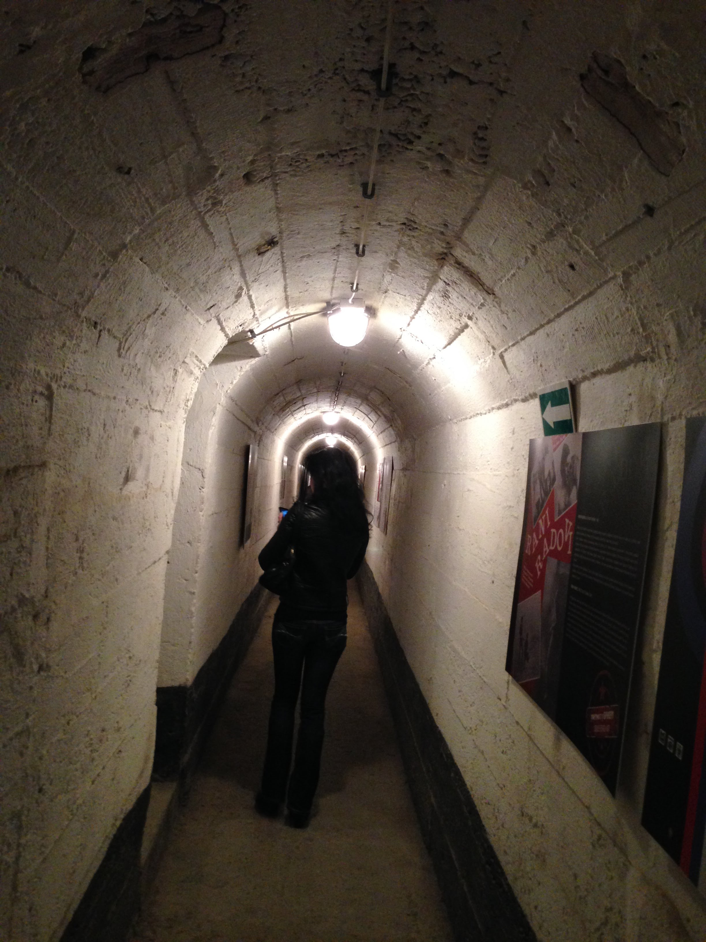 Military bunker (1953) Kalemegdan, Belgrade fortress, Serbia